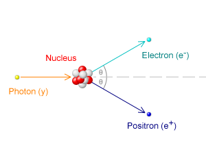 David Horman Photons of sufficiently high energies can interact with the Coulomb field of an atomic nucleus to be transformed into an electron positron pair. References Hubbell, J. H. (June 2006). "Electron positron pair production by photons: A historical overview". Radiation Physics and Chemistry 75 (6): 614–623.